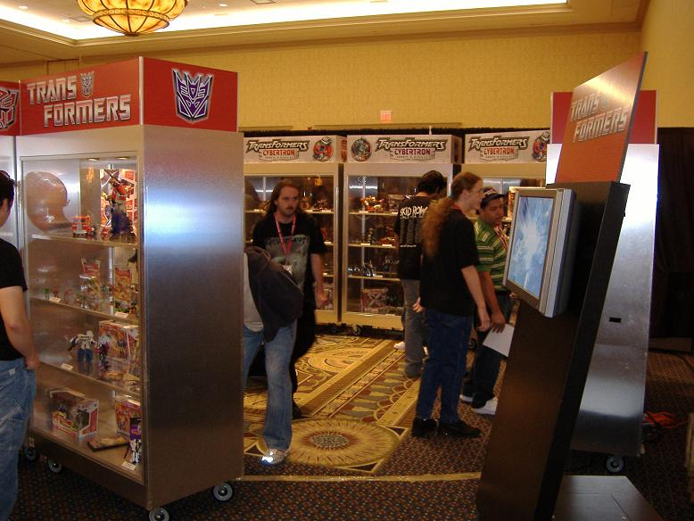 Displays of upcoming Transformers at BotCon 2006, Lexington Convention Center, Kentucky.